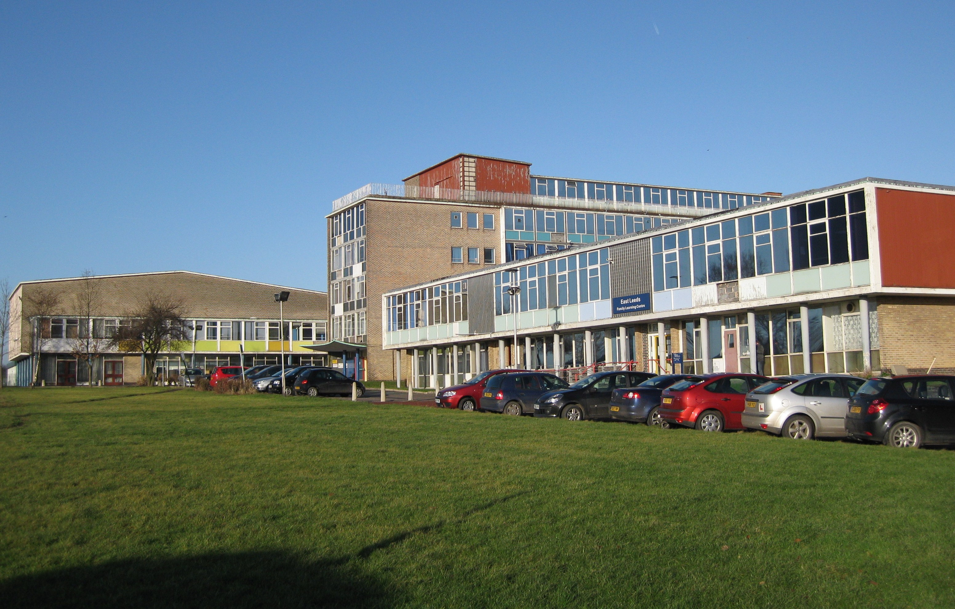 East Leeds Family Learning Centre, Brooklands View, LEEDS, West Yorkshire LS14 6SA